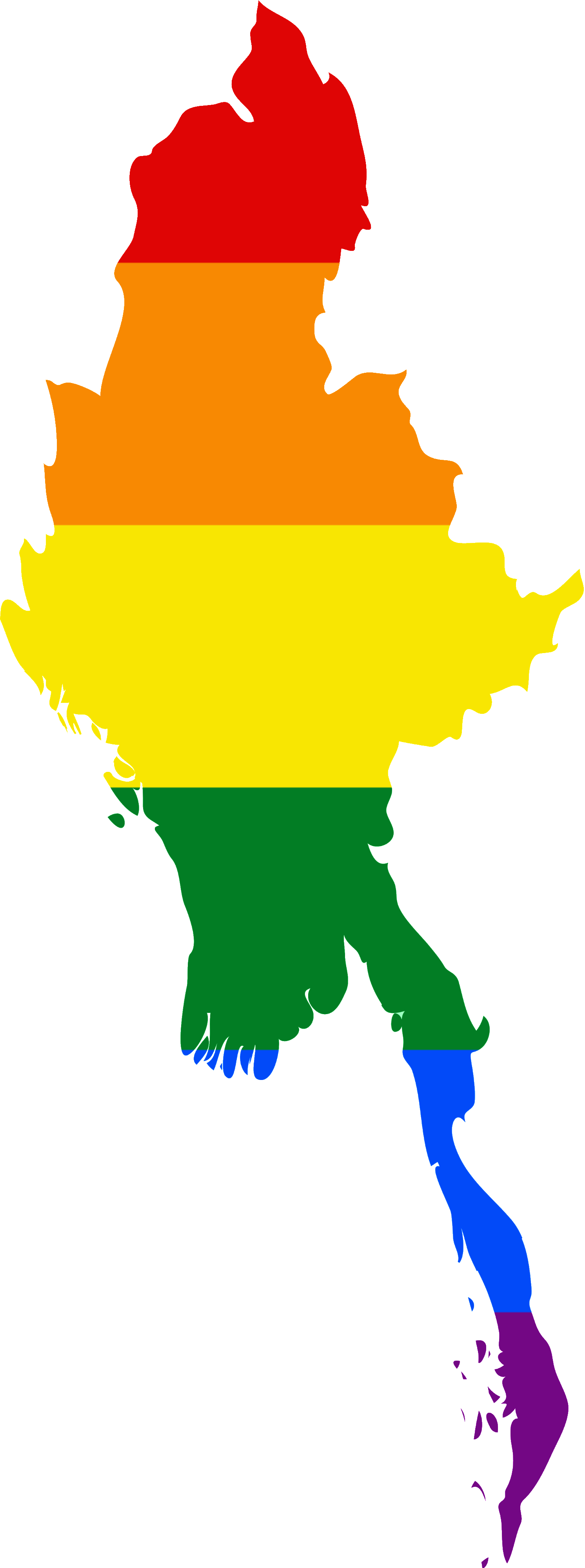 LGBT Flag map of Burma